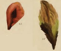 Stainton’s Natural History of the Tineina (1855–1873): Aristaea pavoniella - mined leaves of Aster bellidiastrum (2b, 2b*)